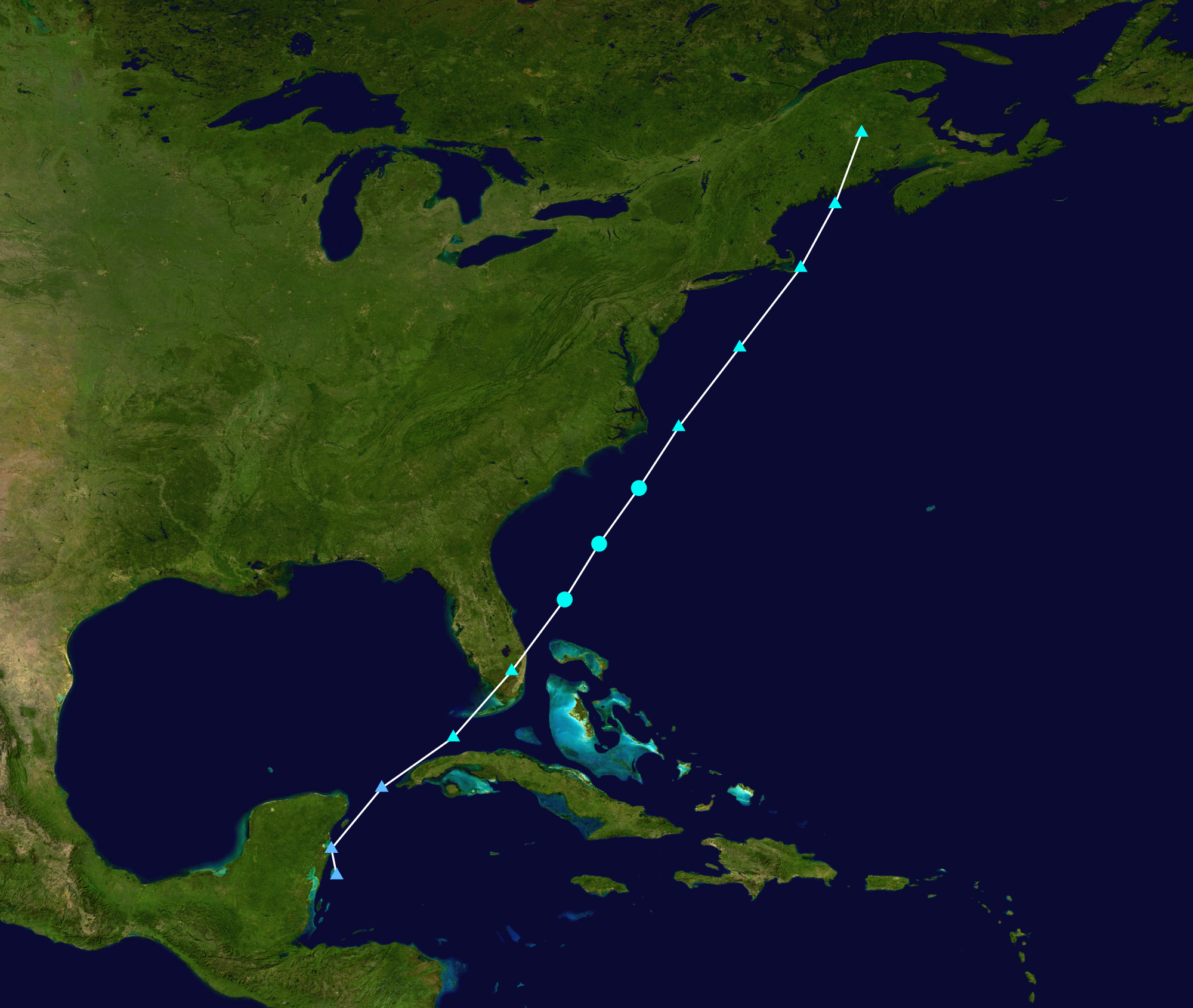 Track map of Tropical Storm One of the 1952 Atlantic hurricane season. The points show the location of the storm at 6-hour intervals. The colour represents the storm's maximum sustained wind speeds as classified in the Saffir–Simpson hurricane wind scale (see below), and the shape of the data points represent the nature of the storm, according to the legend below. Saffir–Simpson hurricane wind scale Tropical depression≤38 mph≤62 km/h Category 3111–129 mph178–208 km/h Tropical storm39–73 mph63–118 km/h Category 4130–156 mph209–251 km/h Category 174–95 mph119–153 km/h Category 5≥157 mph≥252 km/h Category 296–110 mph154–177 km/h Unknown Storm typeTropical cycloneSubtropical cycloneExtratropical cyclone / Remnant low / Tropical disturbance